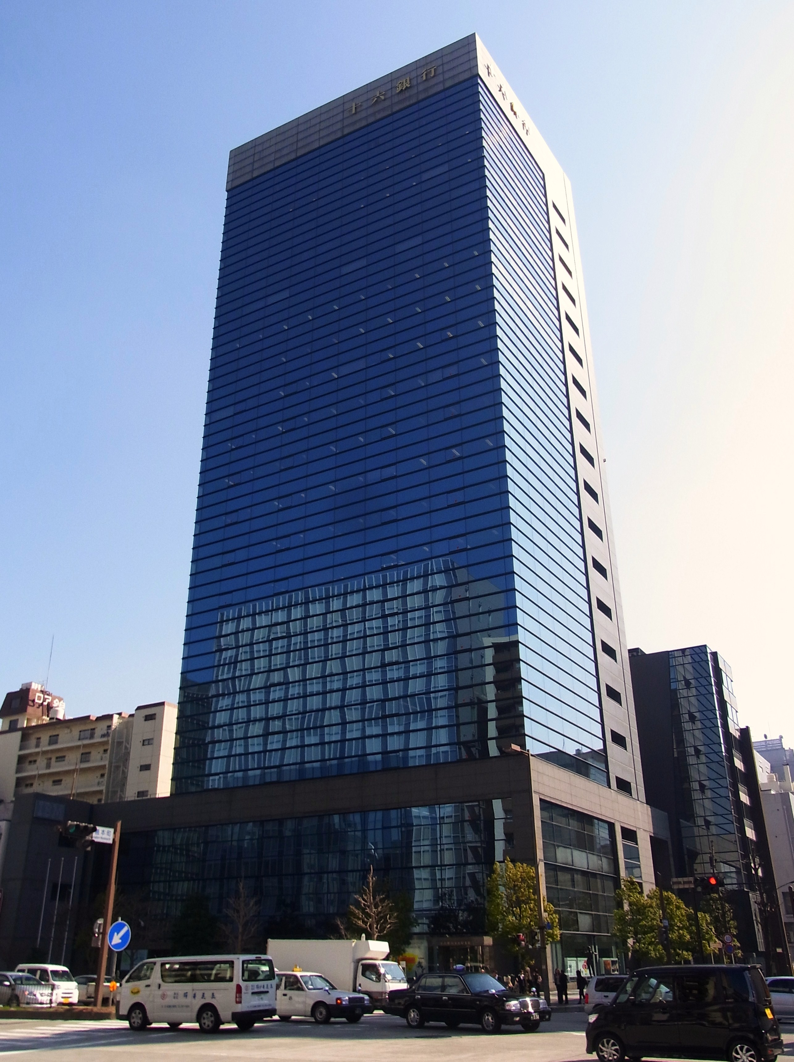 The Juroku Bank Nagoya Building in Naka-ku, Nagoya City.